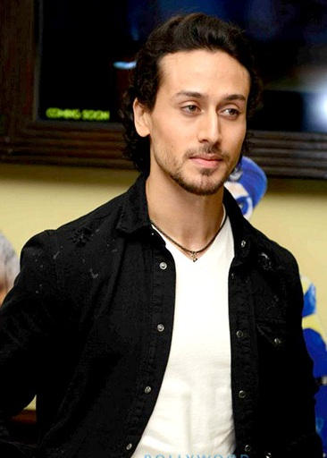 Tiger Shroff snapped at Promotions of 'A Flying Jatt' in Delhi in August 2016